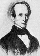 Portrait of Carl Gustaf Mannerheim (1797 - 1854), Finnish naturalist